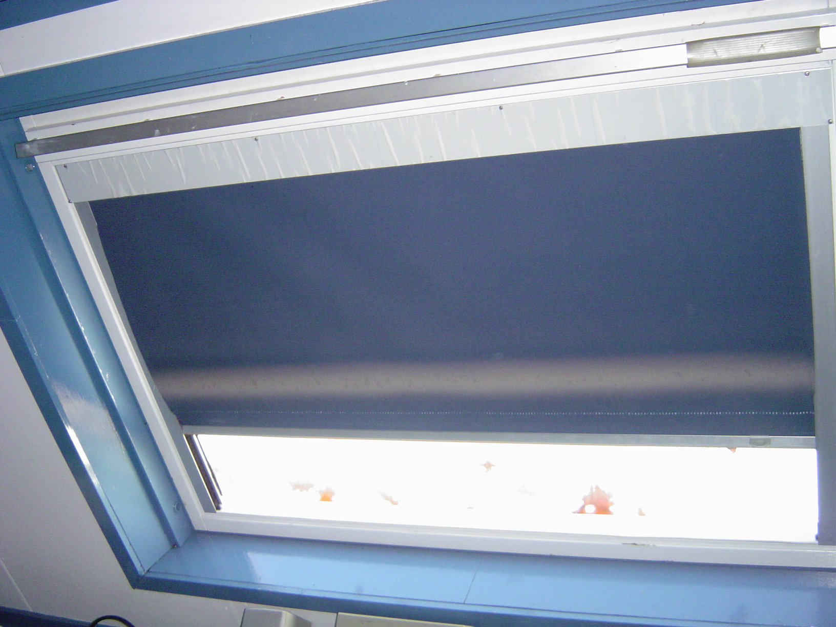 a window with a partially closed window blind/curtain